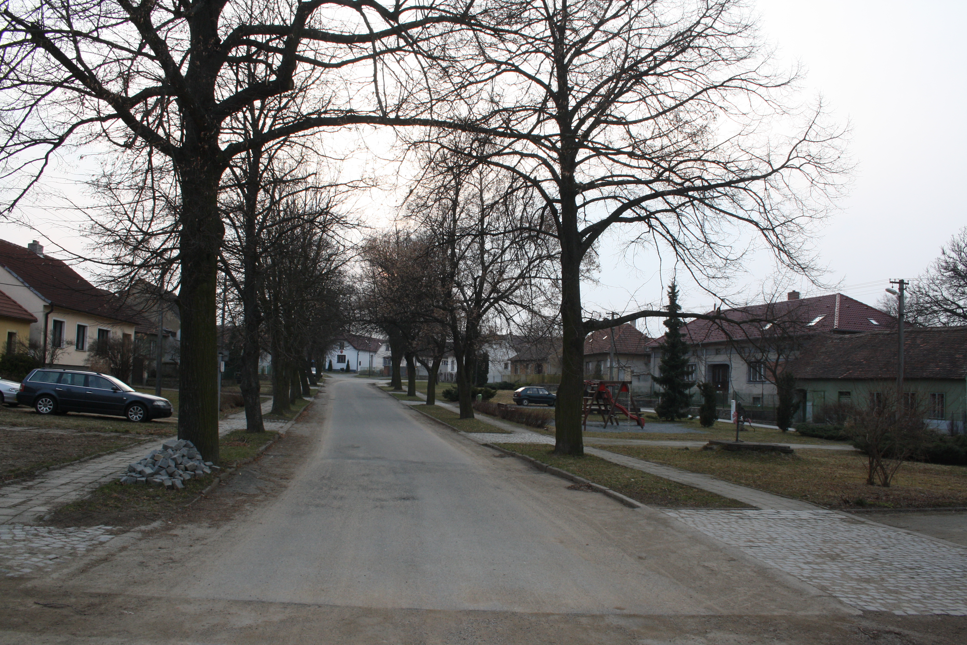 Třebenice center Square.